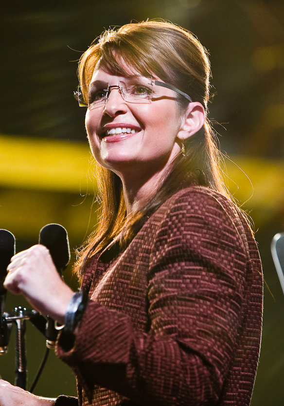 This is an alternate crop of an image already uploaded.